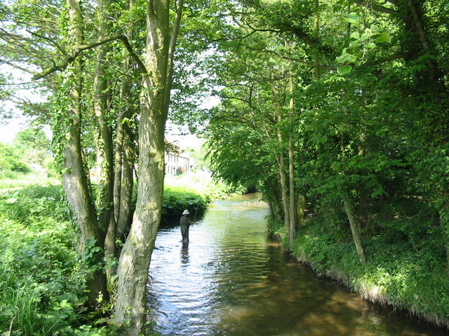 Fly Fishing in Pickering Beck. The fishing rights to this water are controlled by Pickering Fisheries Association.